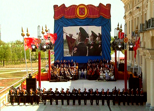 Saint Petersburg (Russia), Strelna, Constantine Palace. A concert during the opening of the Constantine Palace in Strelna.